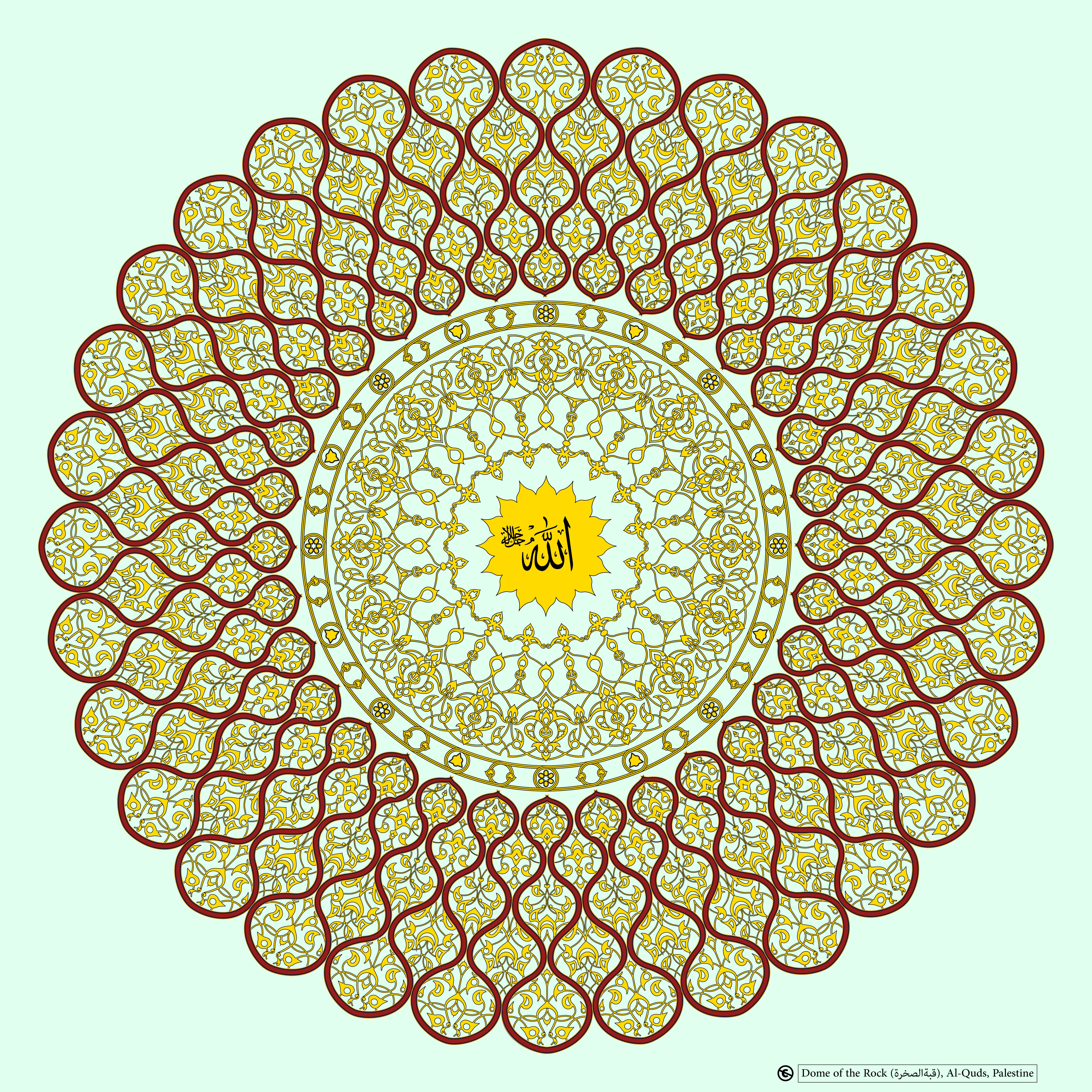 Project name: Dome of the Rock interior vector, Al-Quds, Palestine illustrator: Seyyedali Mousavi Bafrouei, Masumeh Maleknasab